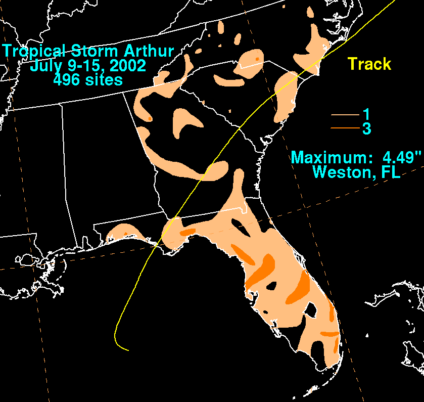 Storm total rainfall map of Tropical Storm Arthur during July 2002.